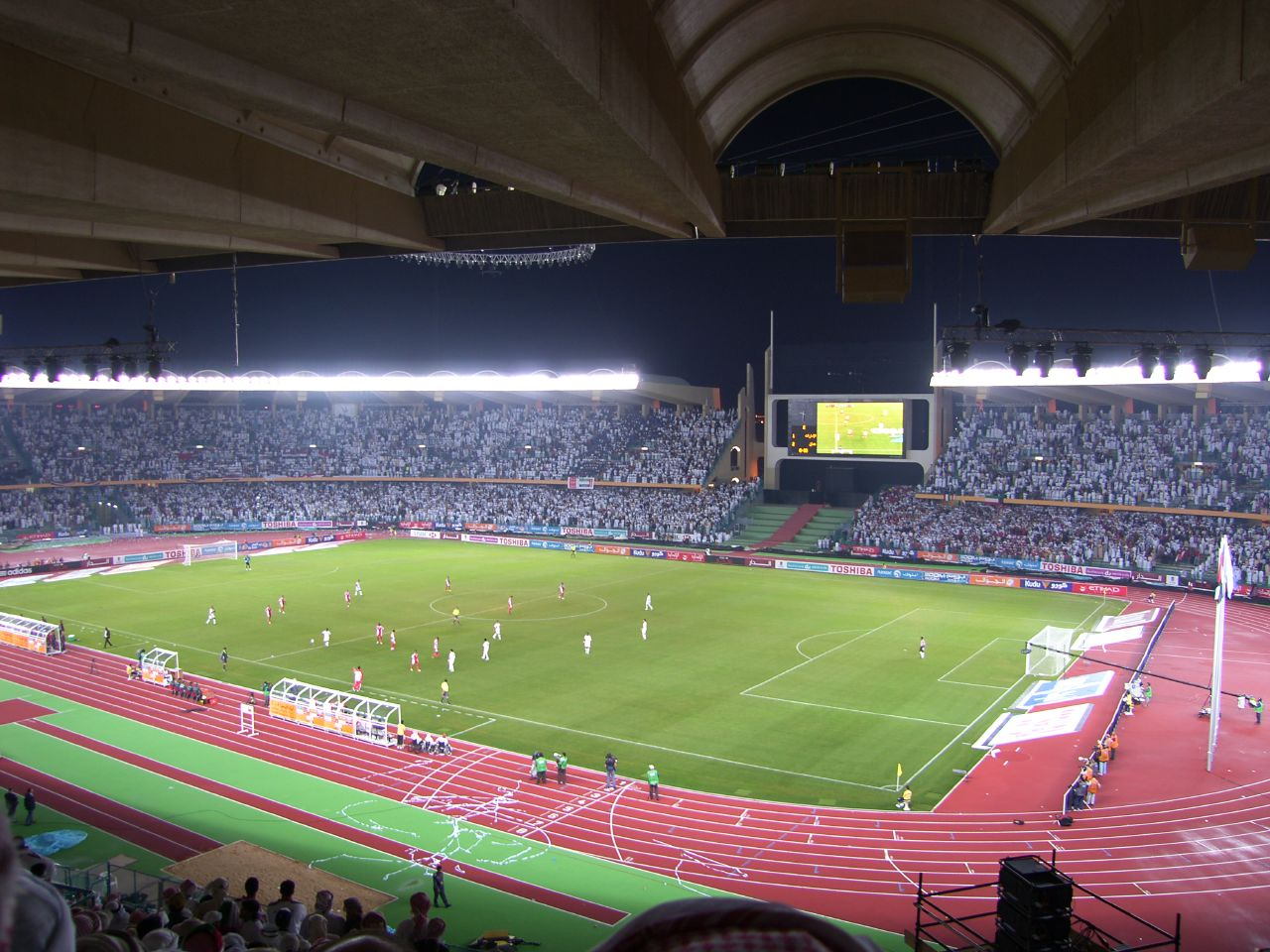 Al-Shorta Stadium